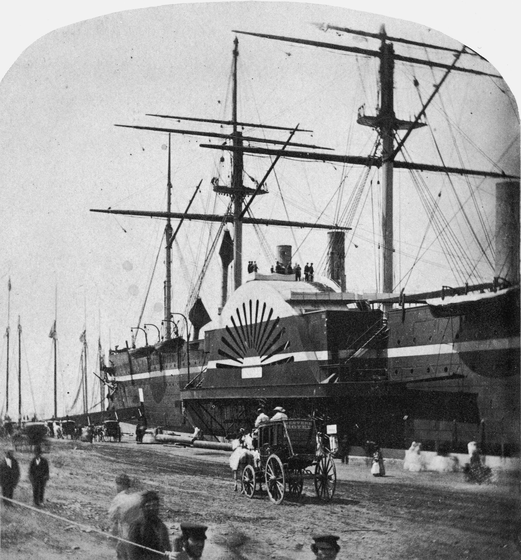 SS Great Eastern in New York Harbor, 1860 - probably "at a pier on the Hudson River between West 11th and 12th Streets", her usual New York berth.